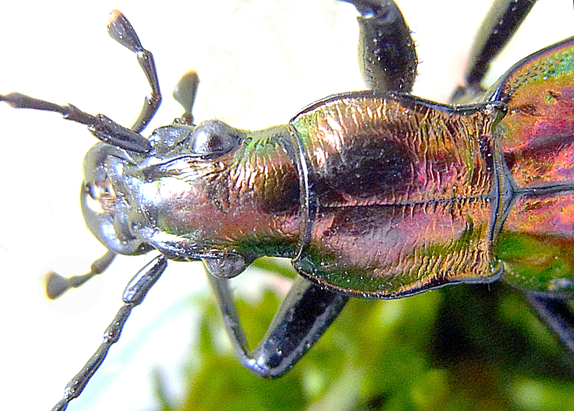 Carabus rutilans head, from Spain, Catalonia, west of Manresa in moist valley at 2011-04-30